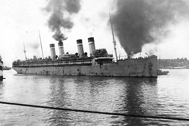 USAT Mount Vernon at Mare Island Naval Shipyard California.